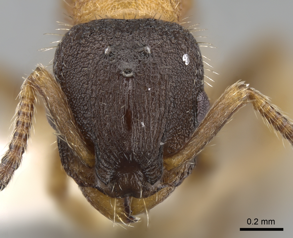 Leptothorax goesswaldi is a species of ants belonging to the subfamily Myrmicinae